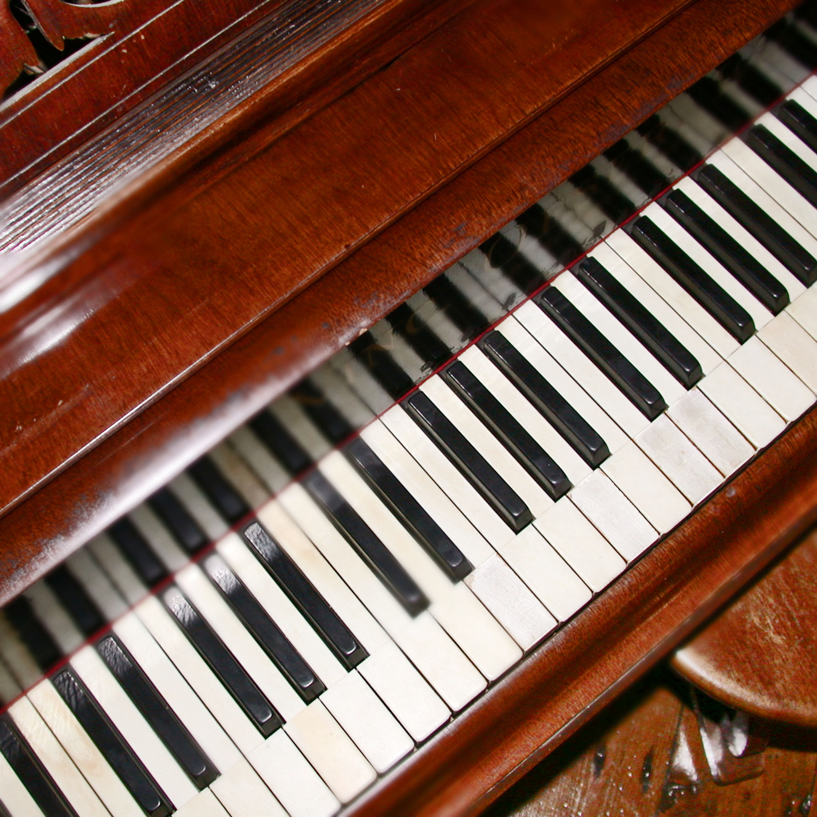 Piano - by actress Klári Tolnay Museum, Mohora, Nógrád county Hungary